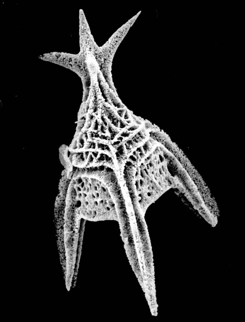 Radiolaria from Jurassic